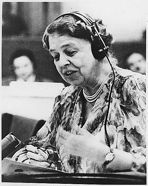 Franklin D. Roosevelt Presidential Library and Museum ID #65732 Eleanor Roosevelt at United Nations